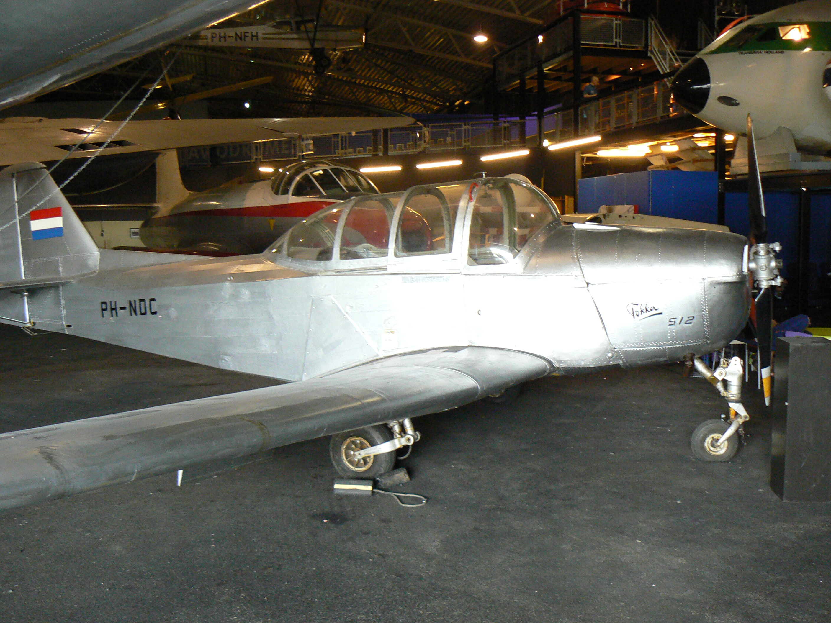 Fokker S-12 exhibited at the Aviodrome Lelystad.